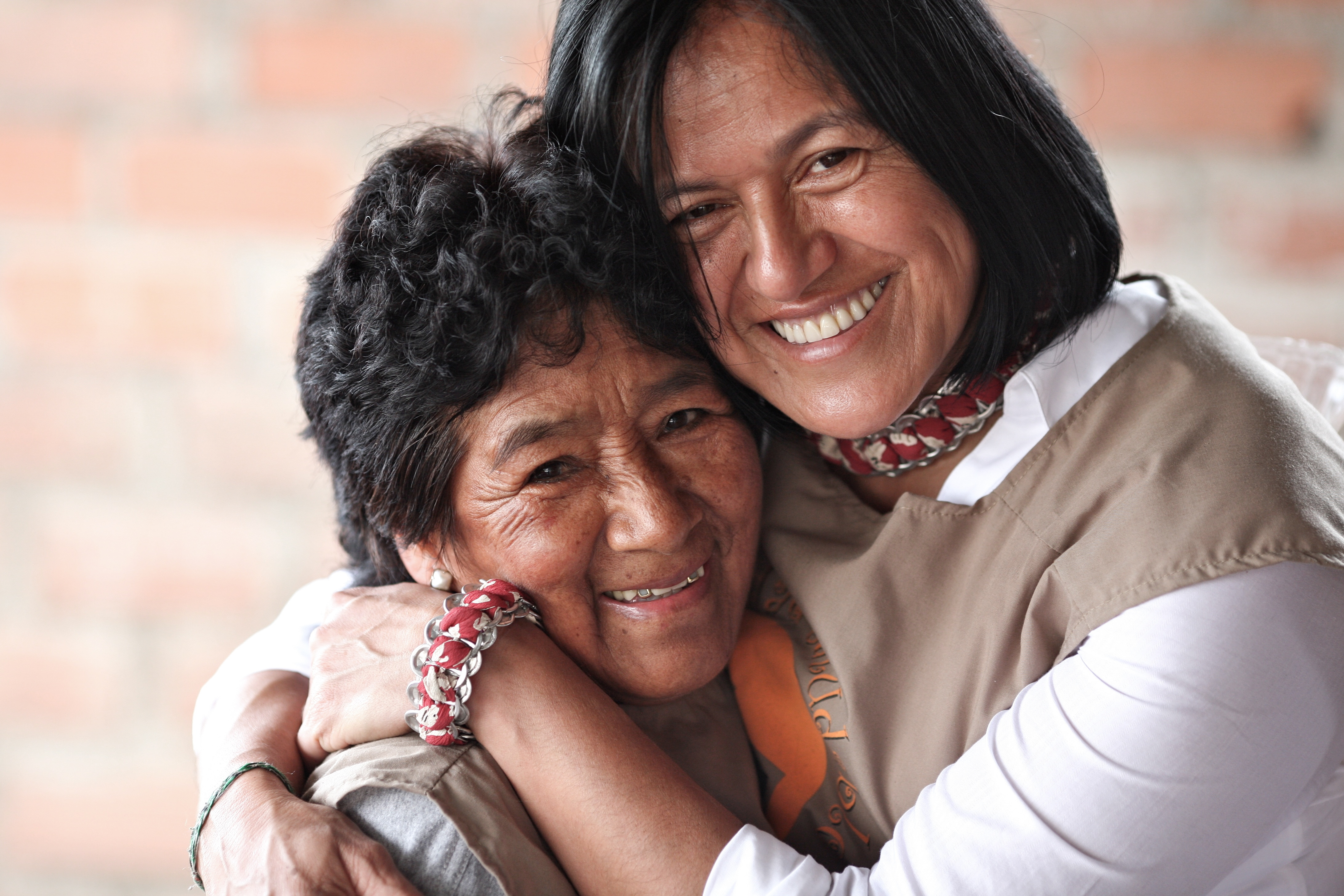 President of Ciudad Saludable - Albina Ruiz (on the Right)